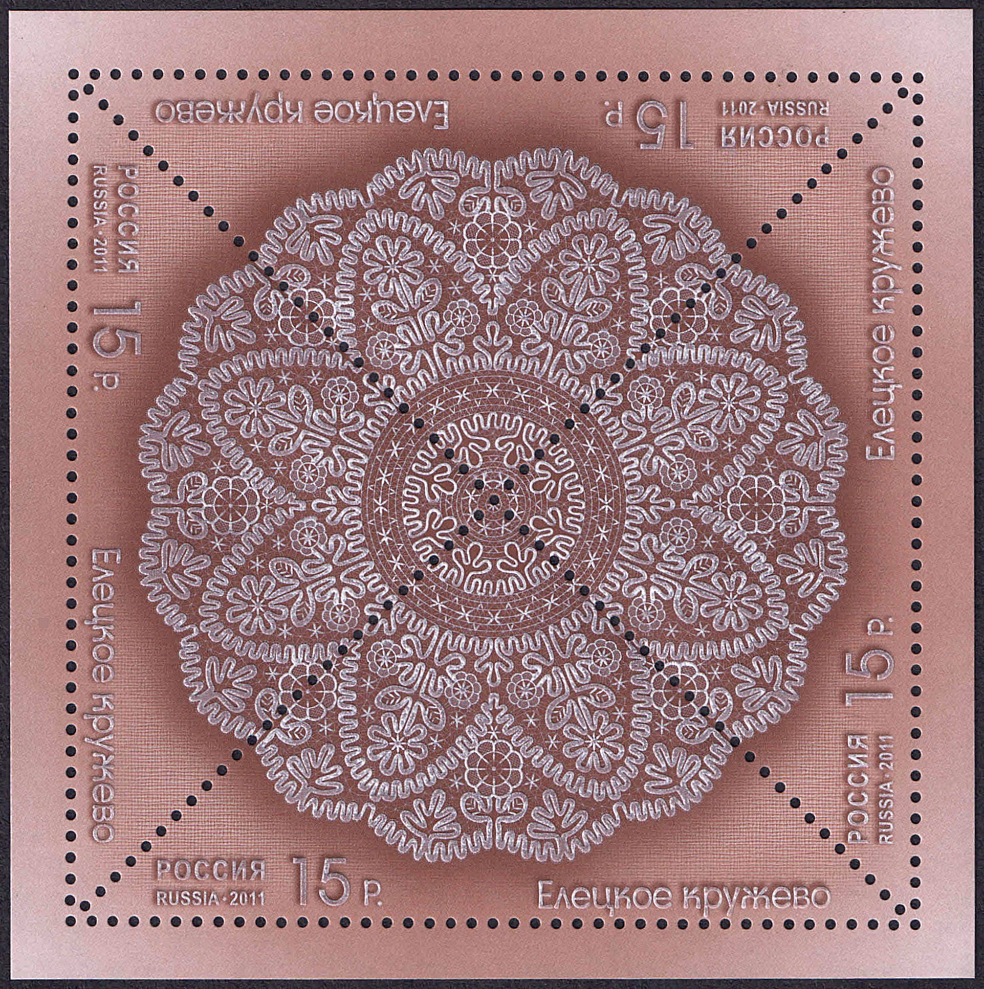 Decorative and Applied Arts of Russia (ongoing stamp series, issue I). The lace-making. The Yelets lace, a bobbin lace made in Yelets town, Lipetsk Oblast. The stamp of Russia, 15.00 Rubles, 12 December 2011, PTC Marka Catalogue No 1553, Michel No 1785. The triangular stamps were issued in the sheets of small format: 4 stamps in 1 sheet. Coated paper. Offset printing, intaglio printing. Perforation: comb 11½. Size of the stamp: 50×50×70 mm (35×70 mm). Size of the stamp sheet: 80×80 mm. Print run: 720,000 stamps.